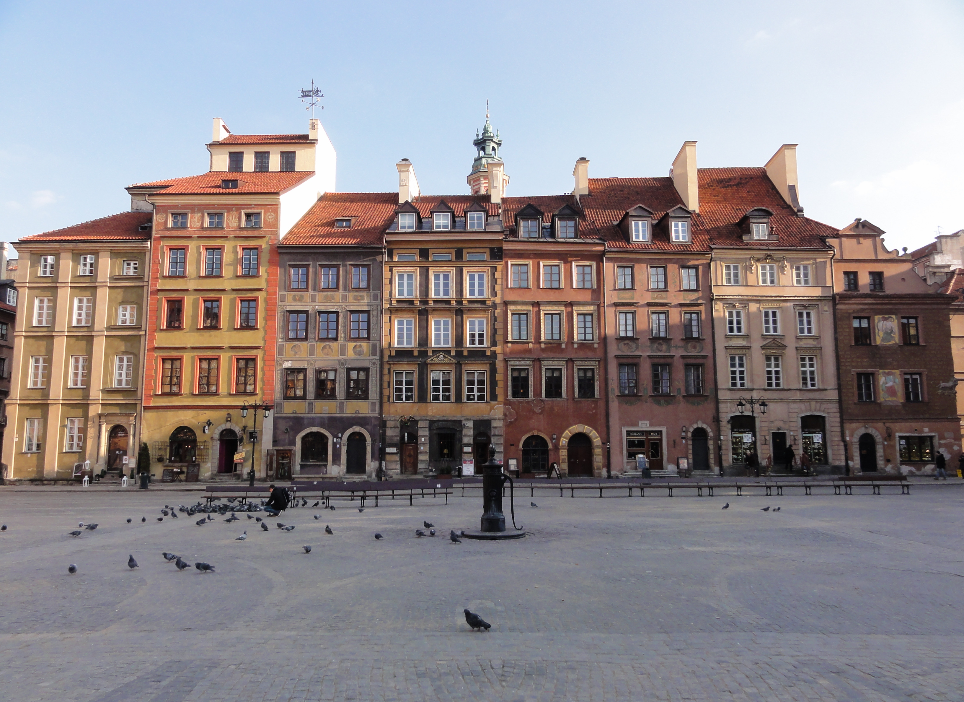 Old Town Market Square in Warsaw